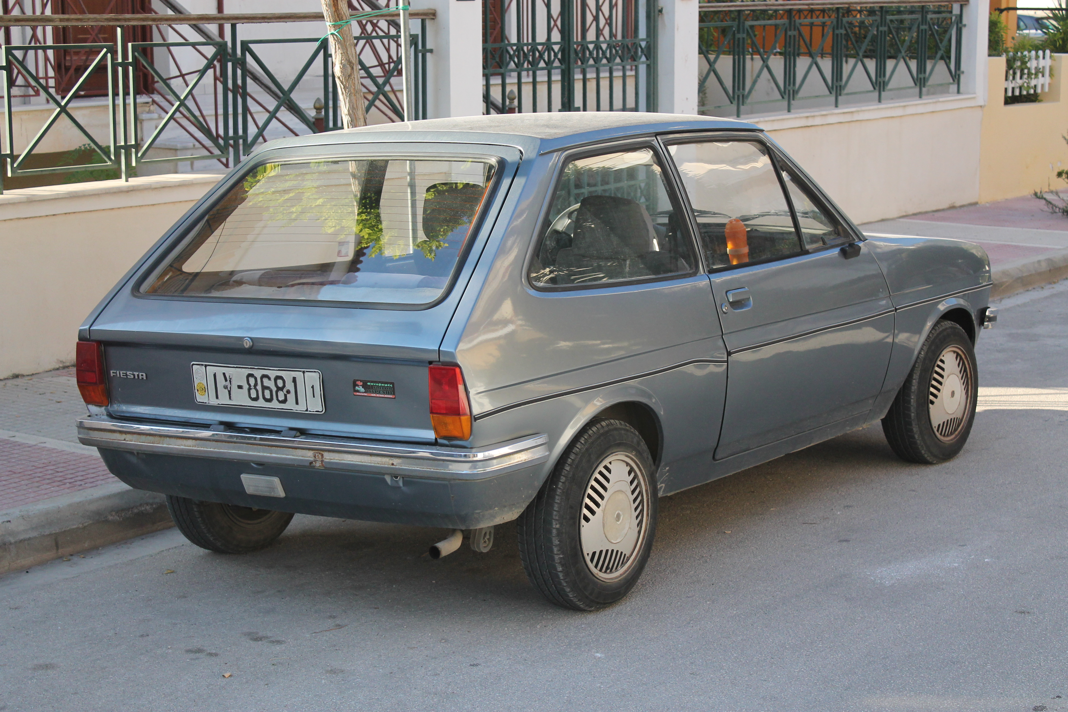 Wheels don't go with this Ford Fiesta at all, in my opinion. Does anyone know what they're from? Sorry- not able to determine engine size/ spec level of this example. I don't think it's a basic one, as it had at one time a passenger side mirror. This example looked immaculate bodywise, and was a bit of a shock compared with most Greek cars! The wheeltrims hurt my eyes though!!!